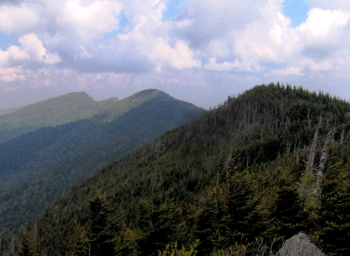 The crest of the north-central Black Mountains in Yancey County, North Carolina, in the southeastern United States. From left to right: Cattail Peak, Balsam Cone, and Big Tom. Part of Potato Hill can be seen just over the ridge connecting Cattail and Balsam Cone. The view is north from Mount Craig.